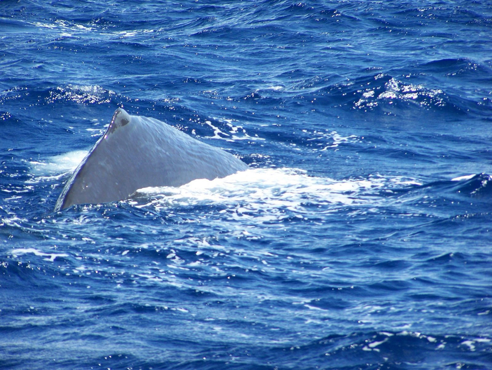 Sperm whale arching back in preparation for dive off Rosseau, Dominica.